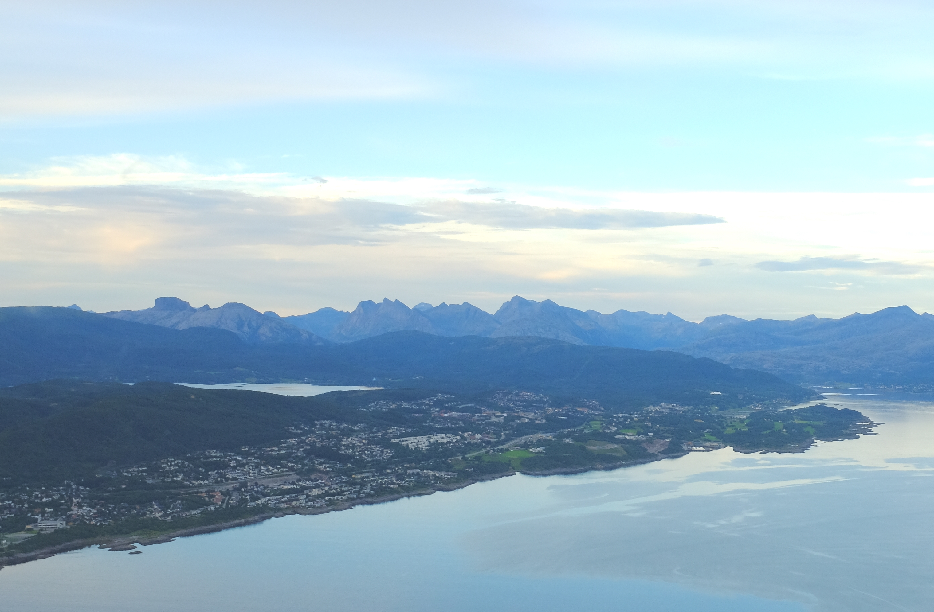 Hunstad is a district in Bodø (Nordland, Norway) located in Innstranda. The district has grown from being a separate village to become a suburb.